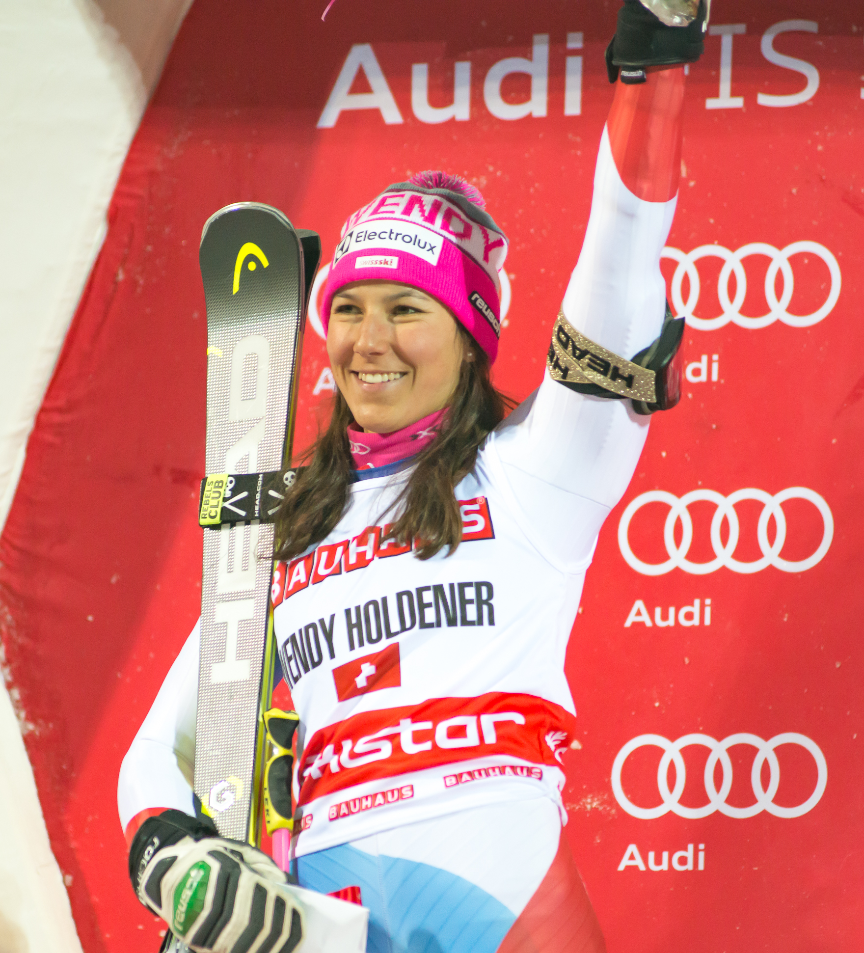 Third place, Wendy Holdener Photo by Roland Osbeck